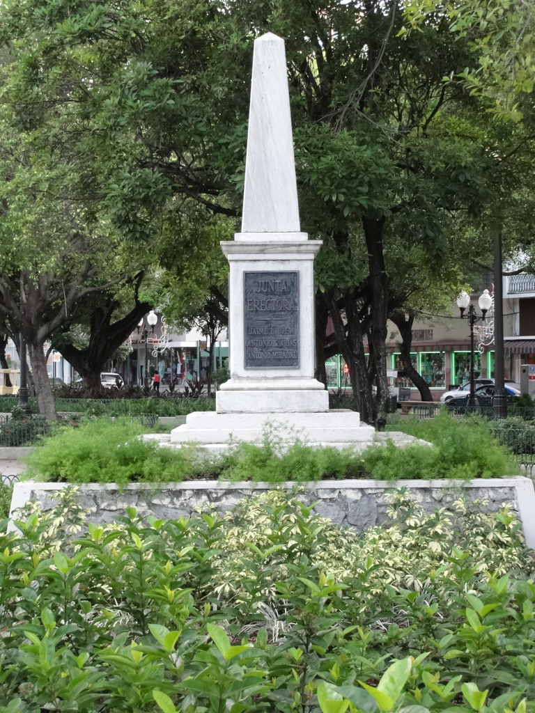 Obelisk to the El Polvorin firefighters in Plaza Las Delicias in Ponce, Puerto Rico